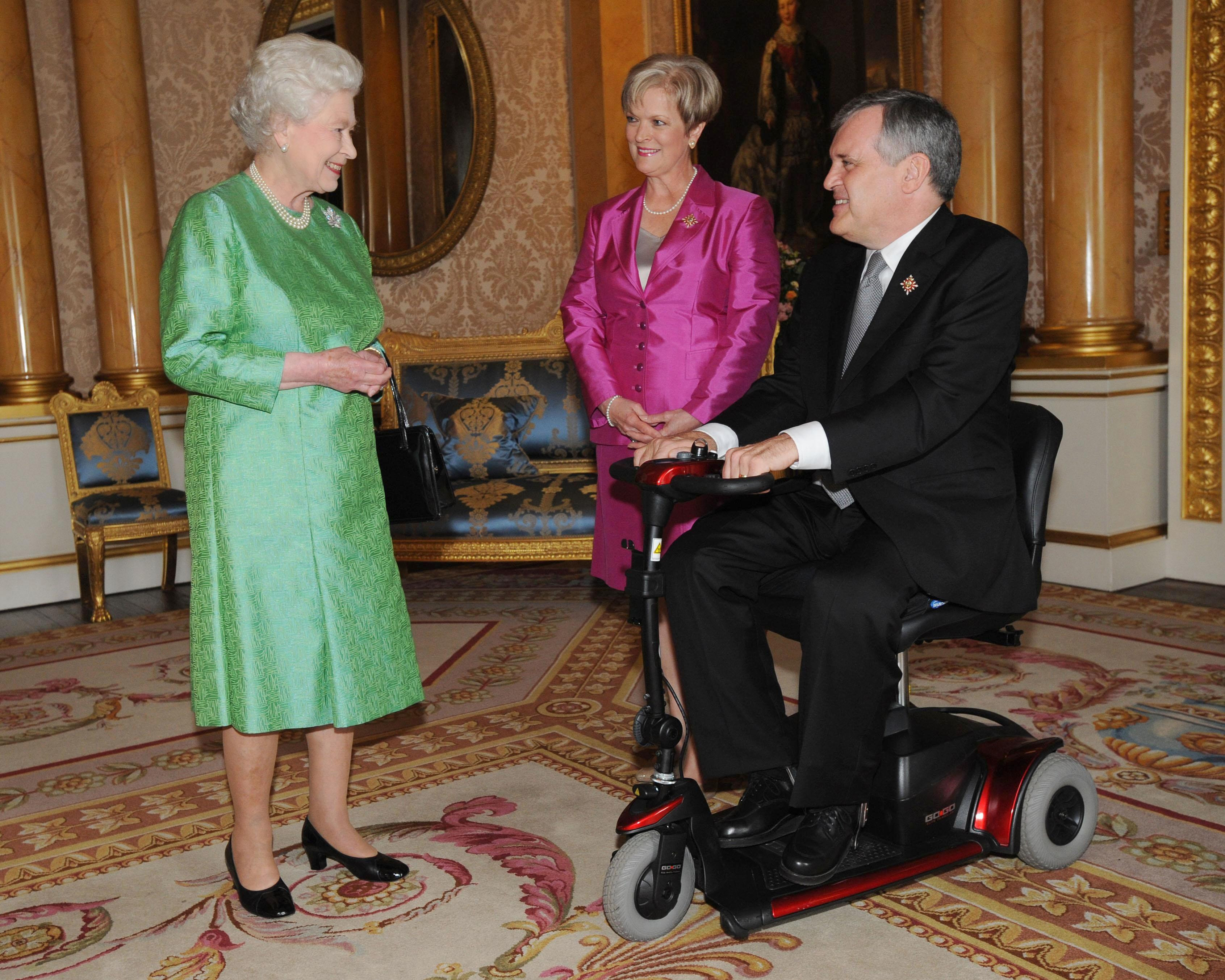 The Honourable David C. Onley, Lieutenant Governor of Ontario meets with Her Majesty The Queen at Buckingham Palace